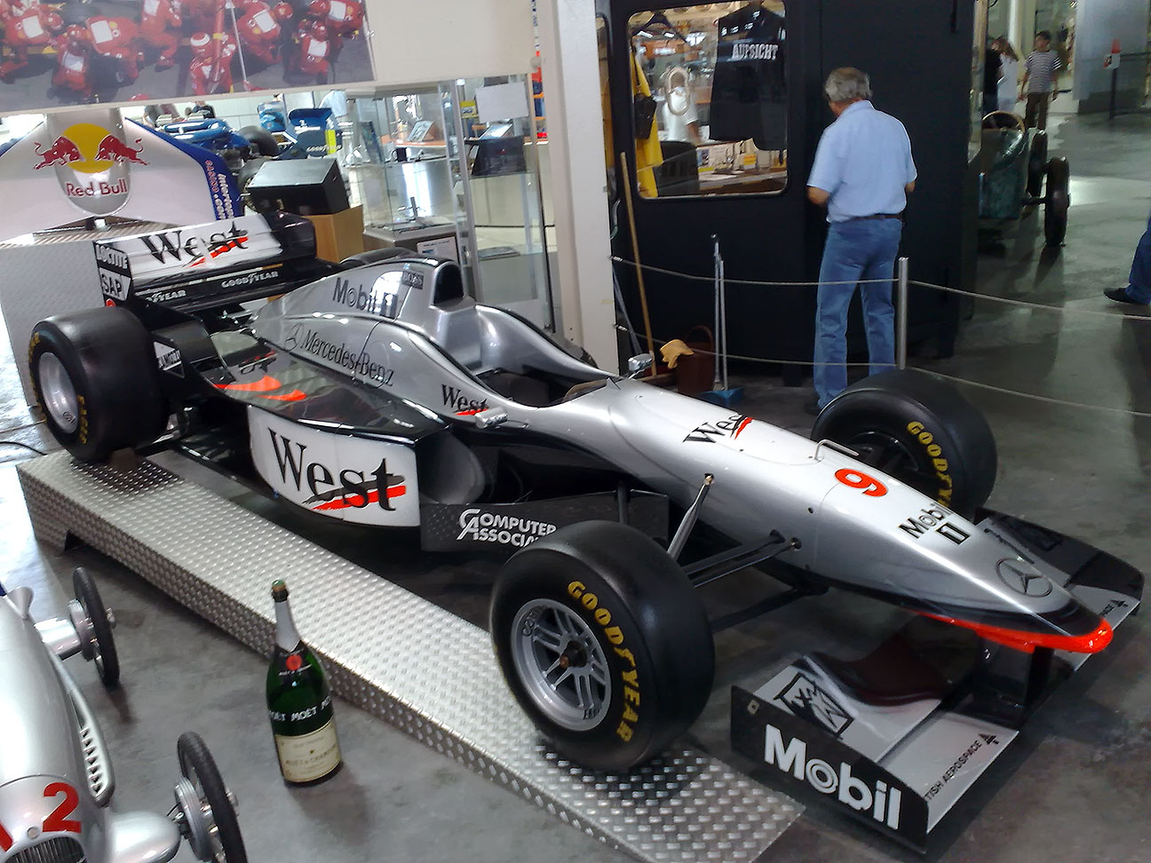 McLaren Mercedes MP4/12 at Auto- und Technikmuseum Sinsheimmclare mercedes